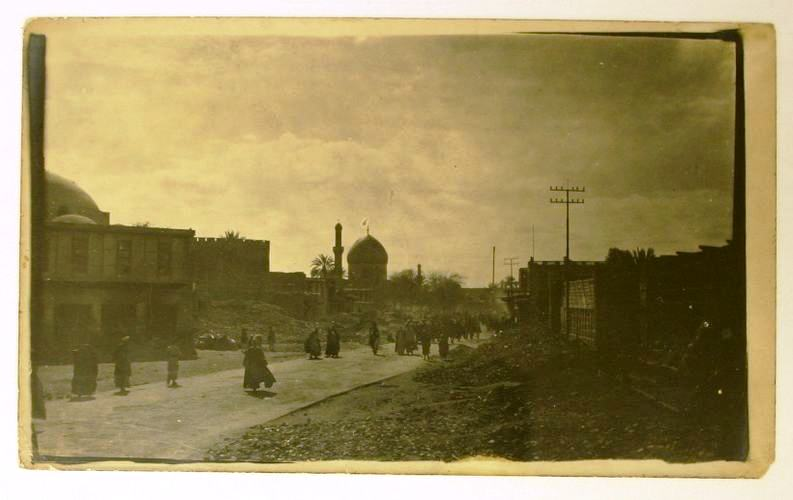 People Walking Down a Road, Baghdad, Iraq, World War I, 1917-1919